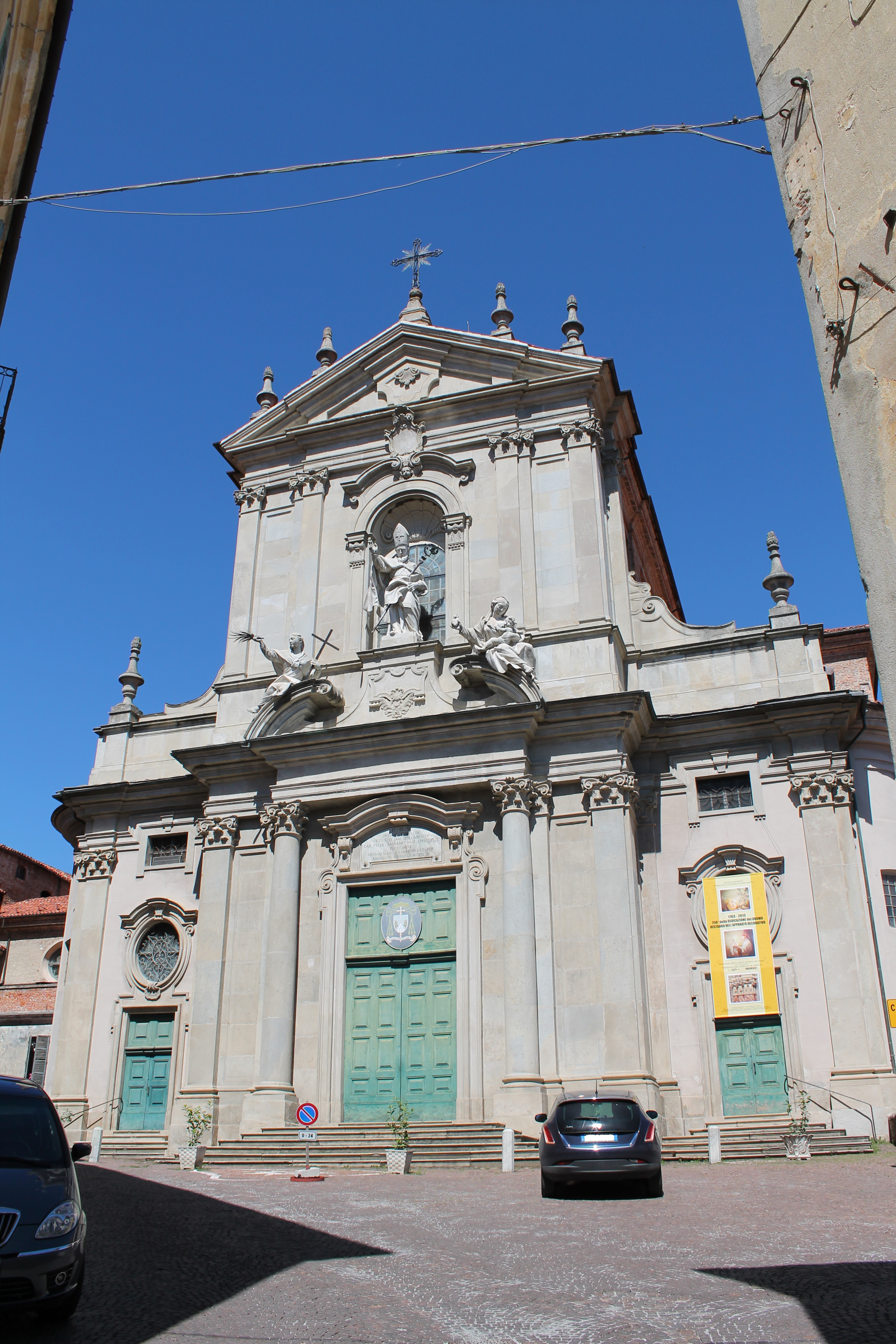 Cathedral church, Mondovì (Italy)